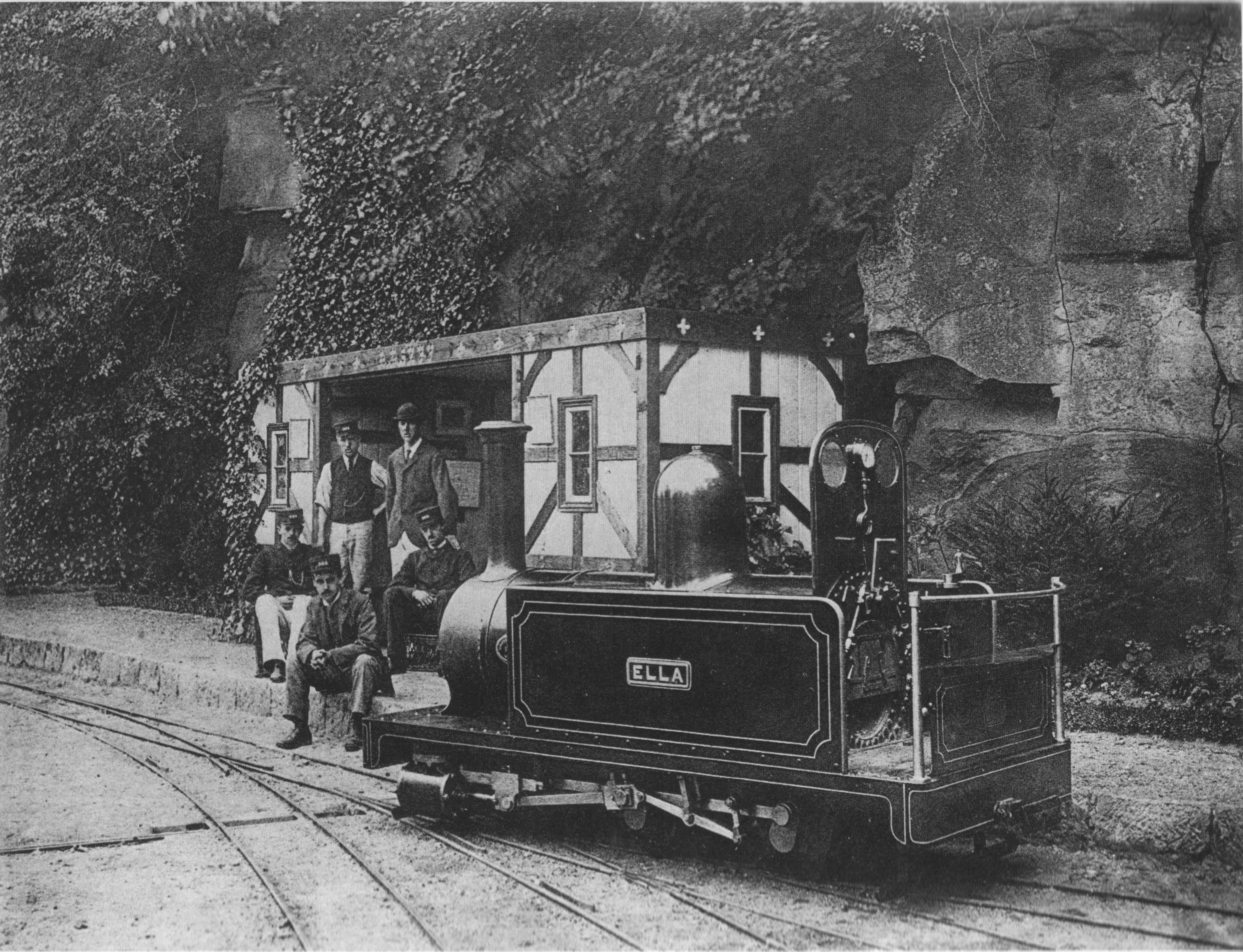 Ella at Tennis Ground, Duffield Bank, Plate XIII (Minimum Gauge Railways).png